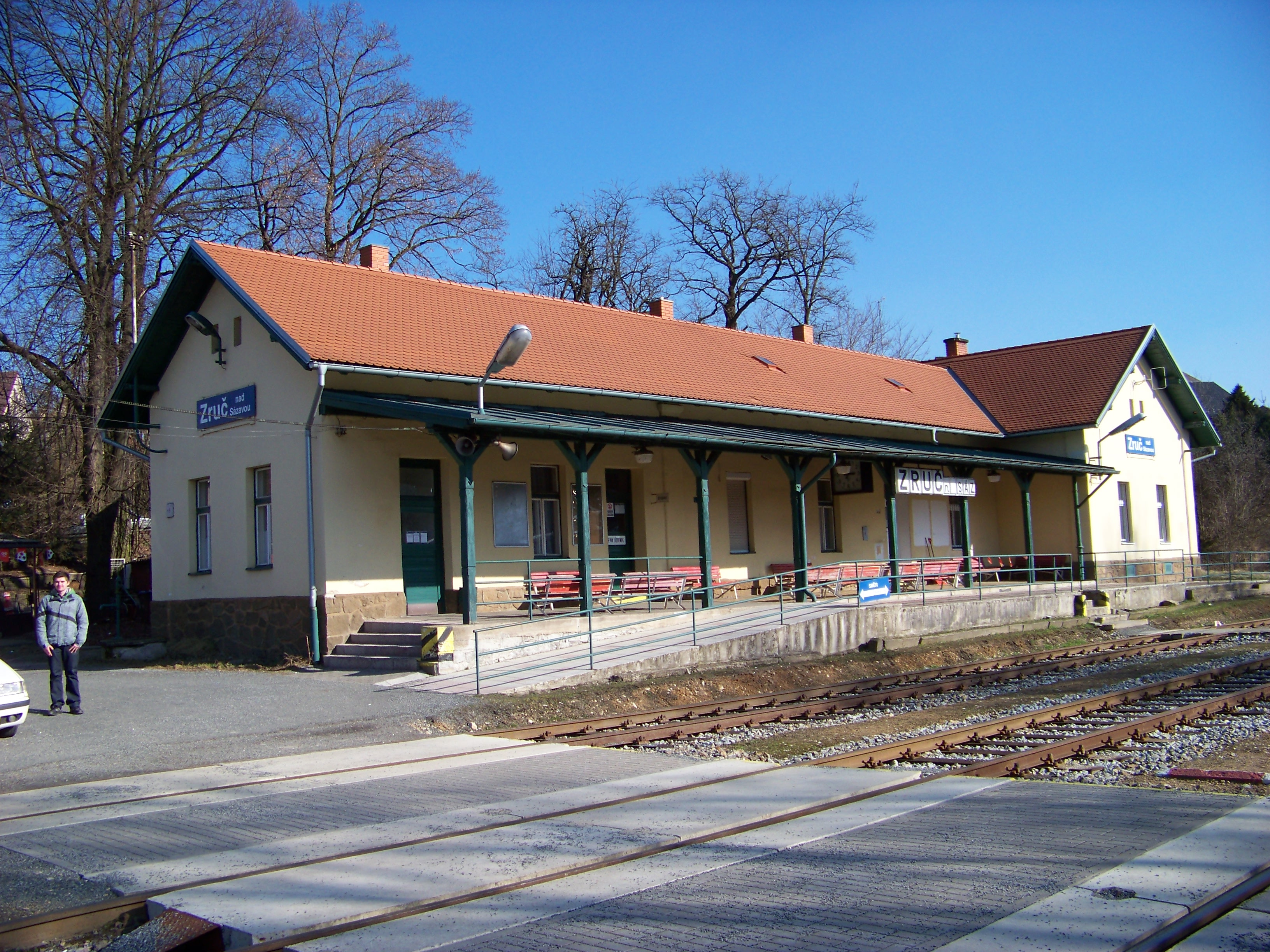 Zruč nad Sázavou, Kutná Hora District, Central Bohemian Region, the Czech Republic. A train station.